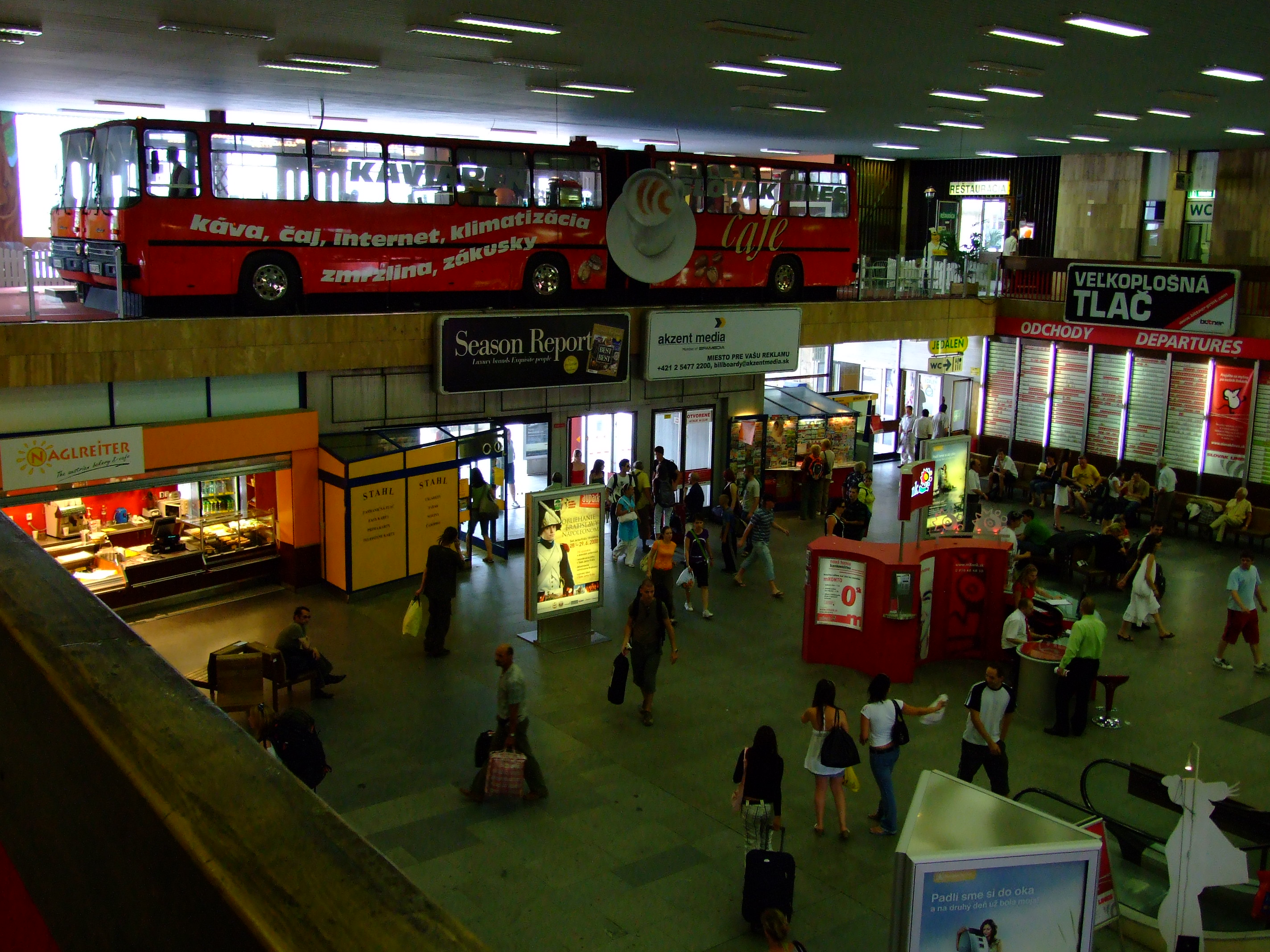 Main bus terminal in Bratislava